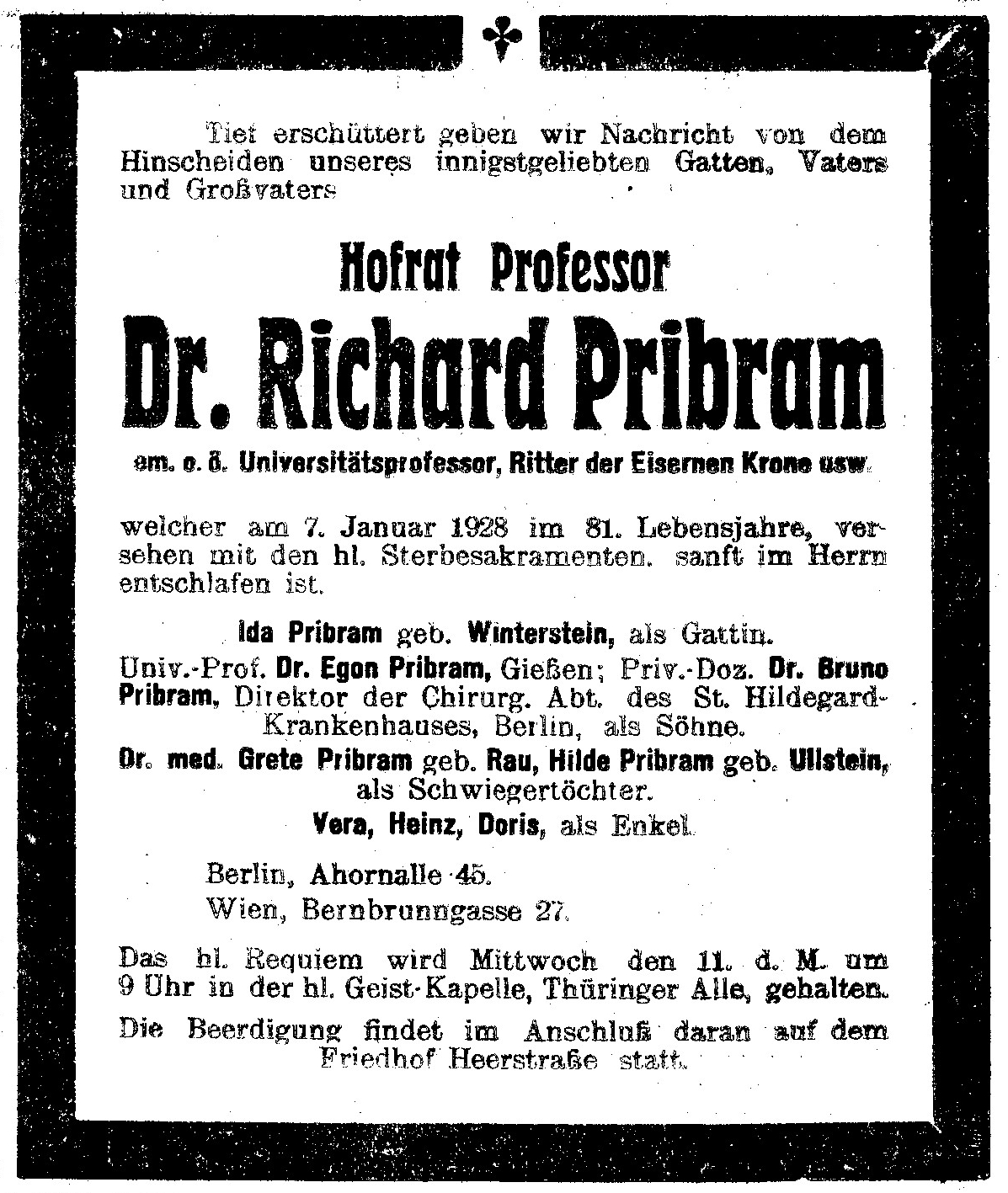 death notice of Richard Pribram (21 April 1847, Prague — 7 January 1928, Berlin), Austrian chemist